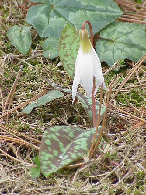 Species: Erythronium dens-canis Family: Liliaceae Image No. 2